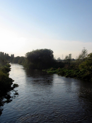 Photo taken by Chris Bayley, using a Canon Powershot A20.